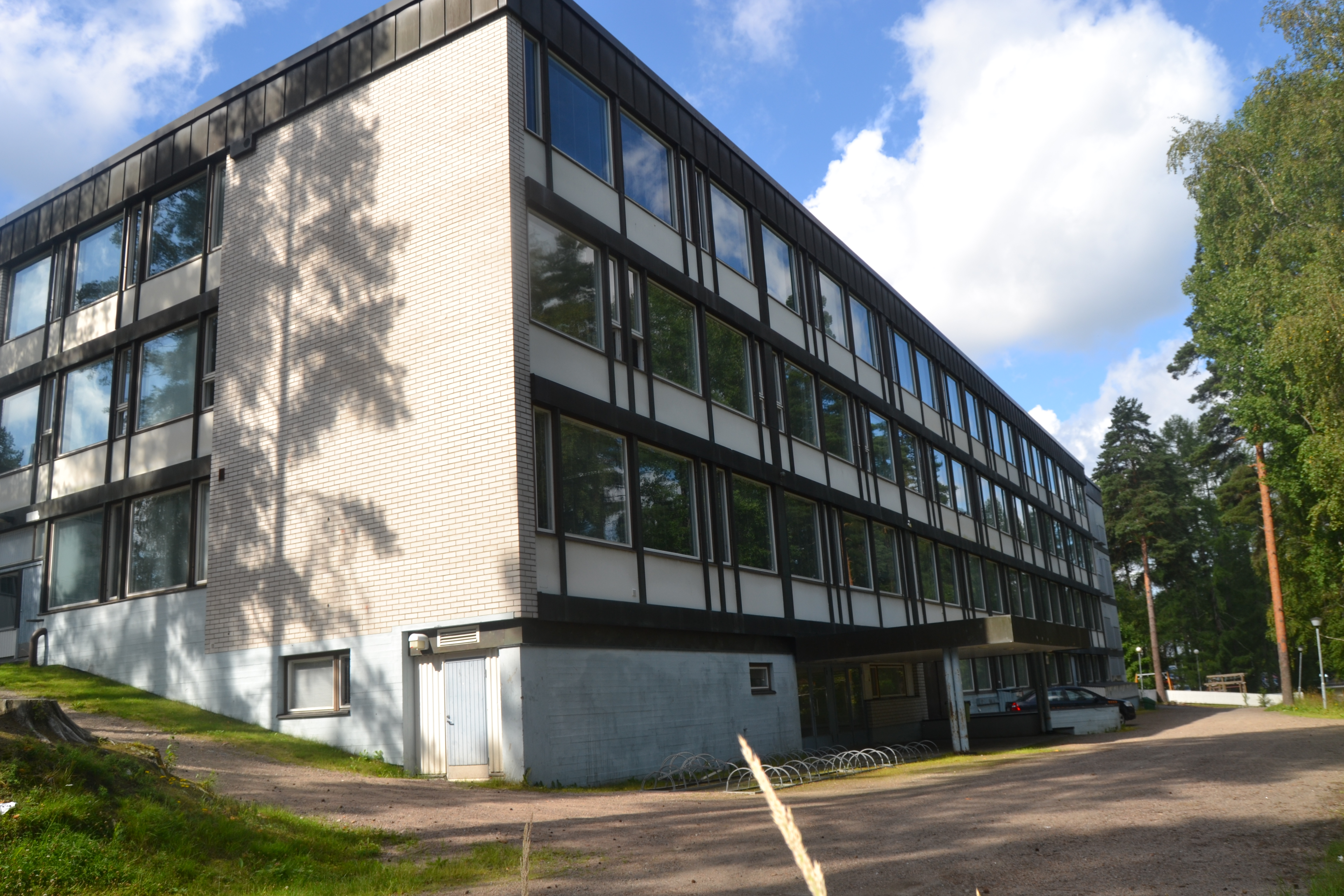 Kilpinen School in Jyväskylä, Finland